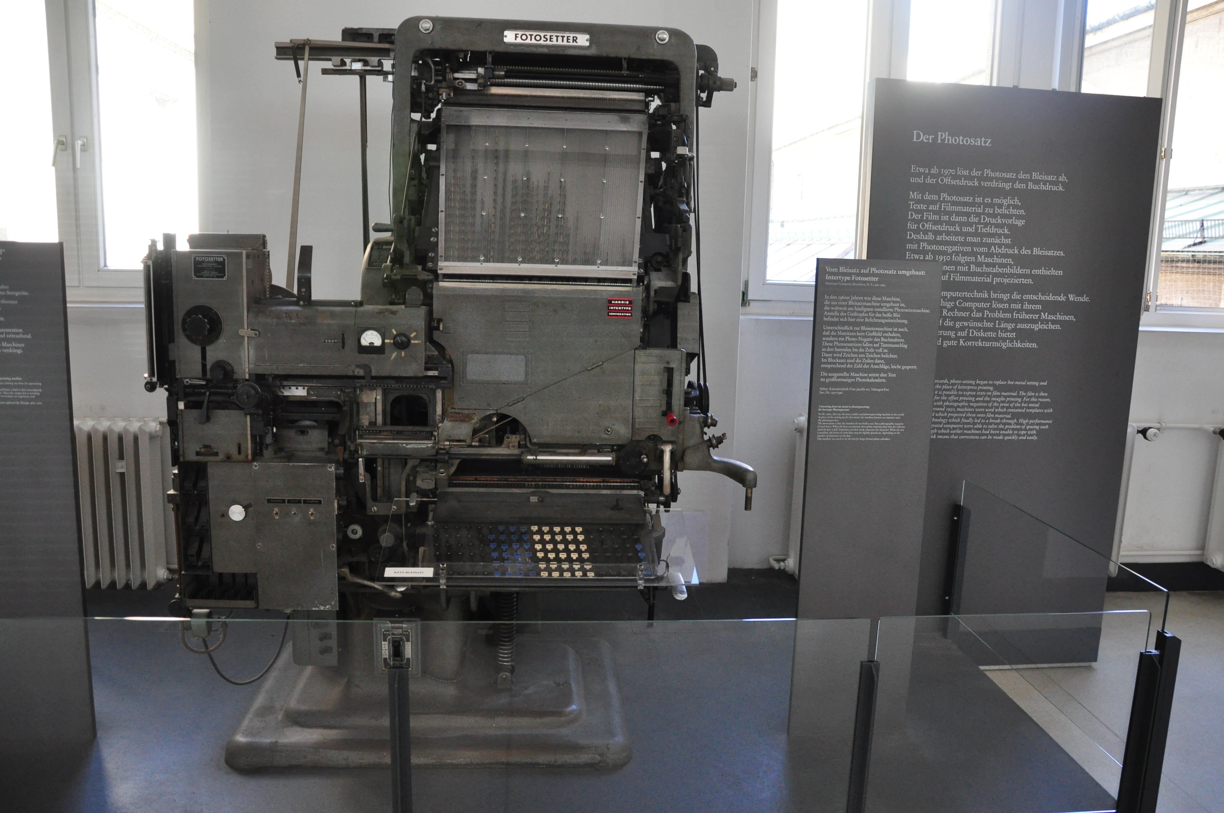 Intertype Company, Brooklyn, N.Y., around 1963